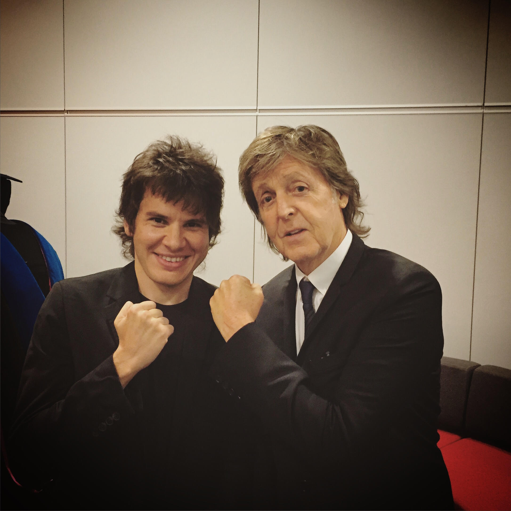 MAYOR TOM and Paul McCartney in Liverpool